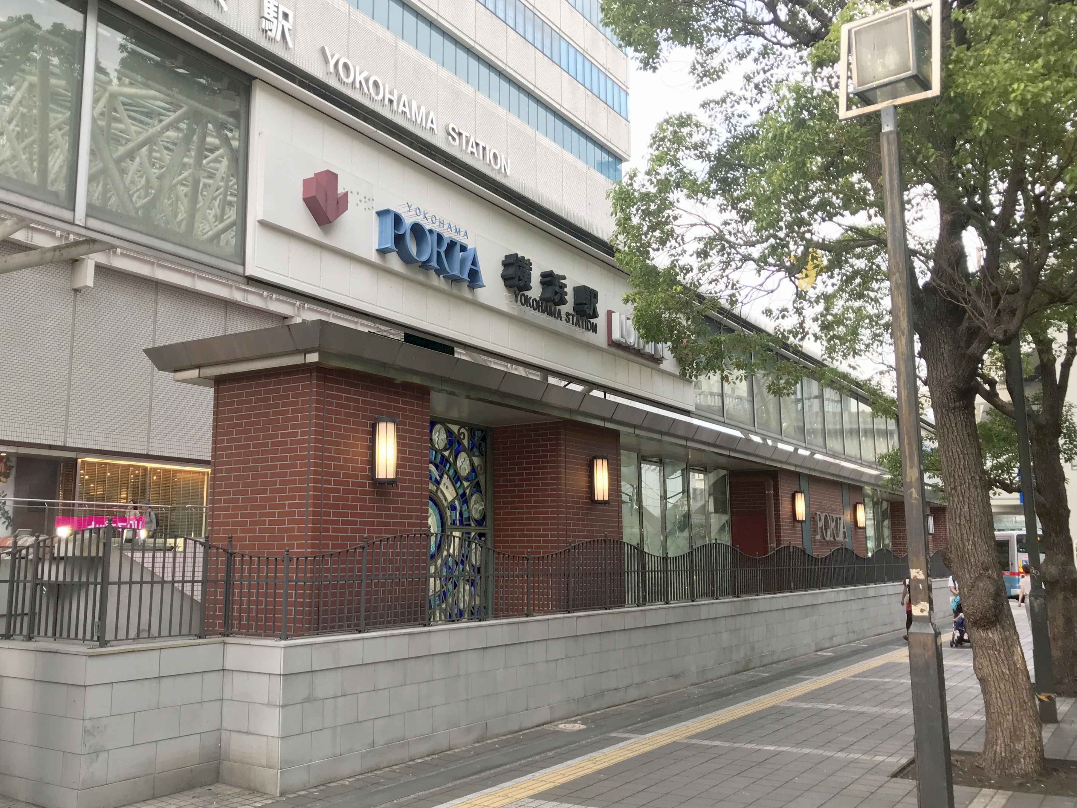 The exterior of the Yokohama Porta entrance on the east exit of Yokohama Station. It is designed with the motif of Yokohama Station for the 3rd generation.